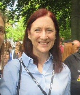 Lisa Henson at Annecy Animated Film Festival 2015